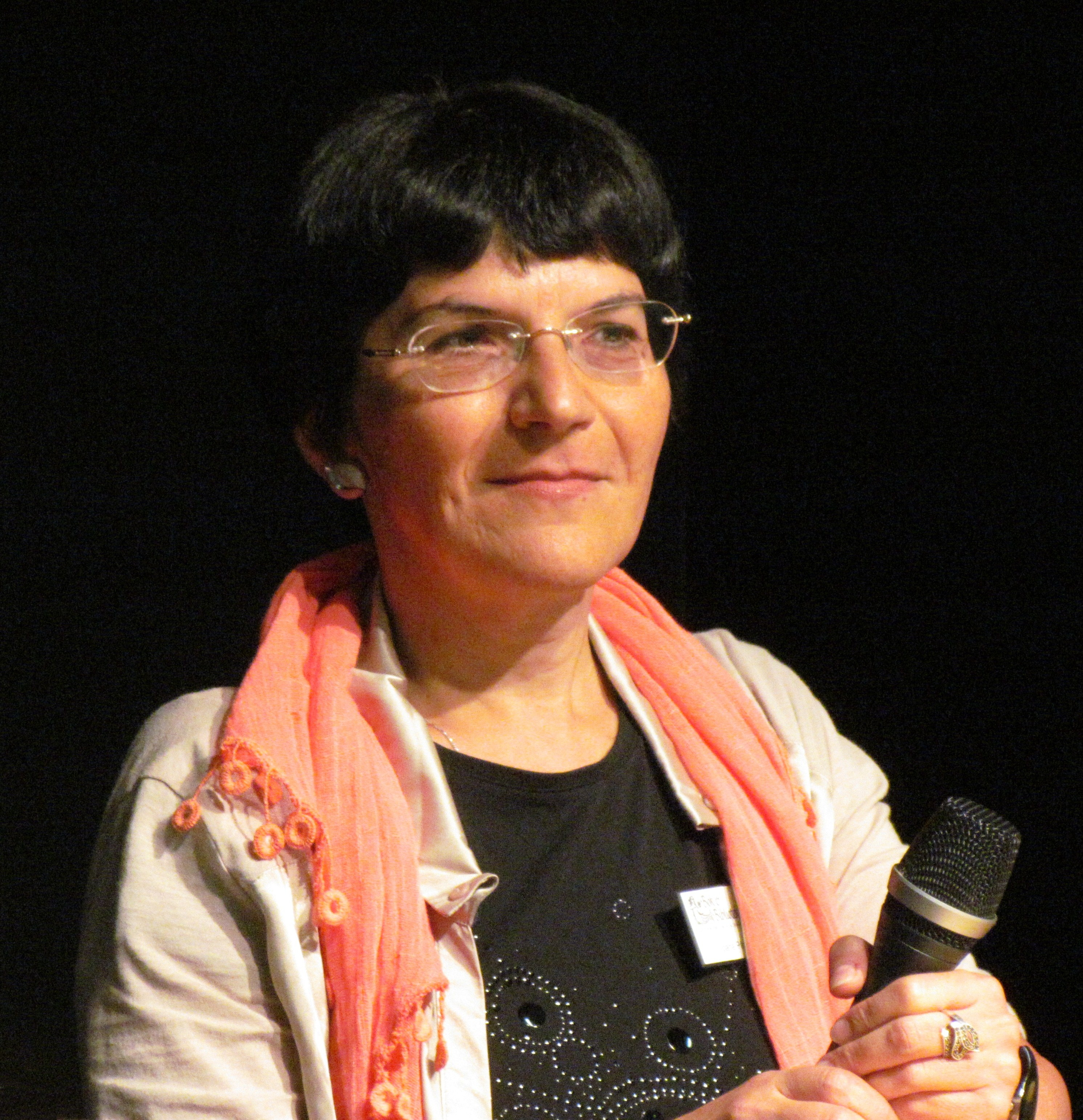 Ioana Pârvulescu, romanian publicist and author, at the 2011 Göteborg Book Fair.